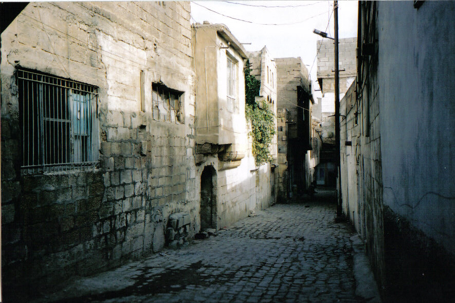 A typical street in the atmospheric old town of Urfa, Turkey. Many streets in the area are impassable to motorised traffic.